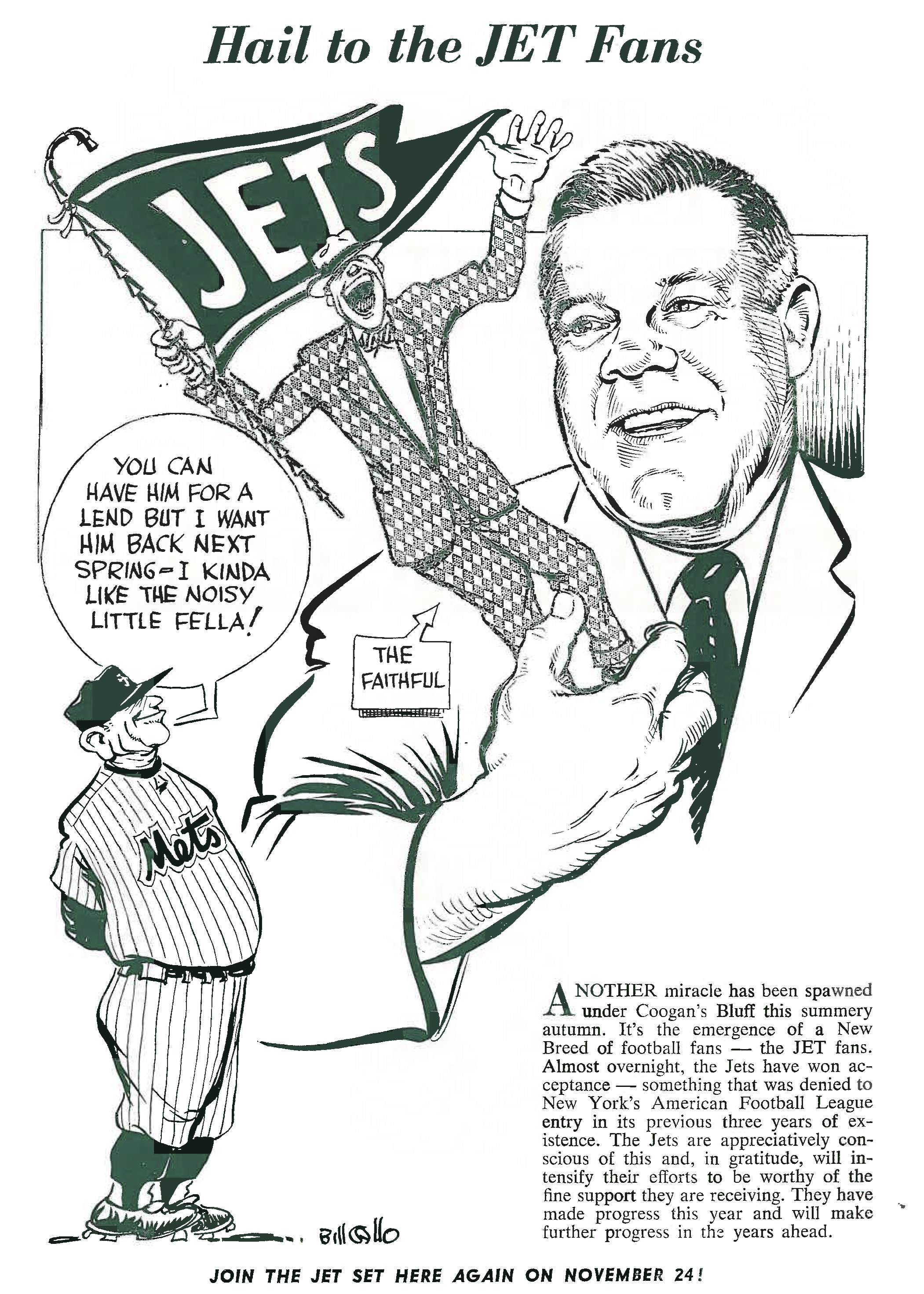 The Mets (possibly intended to be Mets manager Casey Stengel) entrust the Jets fan to Sonny Werblin for the colder weather. Program at the Pro Football Hall of Fame, Canton OH and lacks a copyright notice. Scanned by a Hall of Fame employee (withheld for privacy) on 8/15/11.